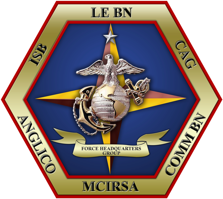 Unit insignia of the Force Headquarters Group, United States Marine Corps Reserve.